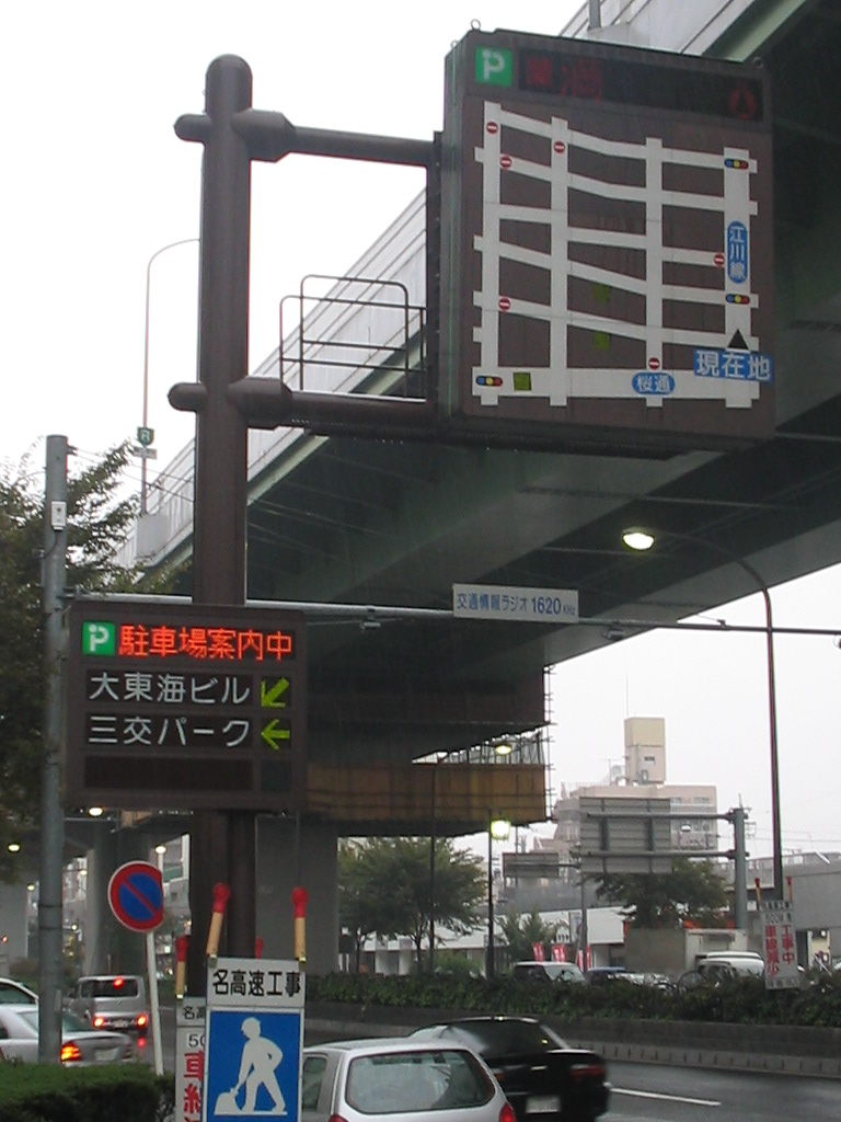 Variable Message Sign in Nagoya.